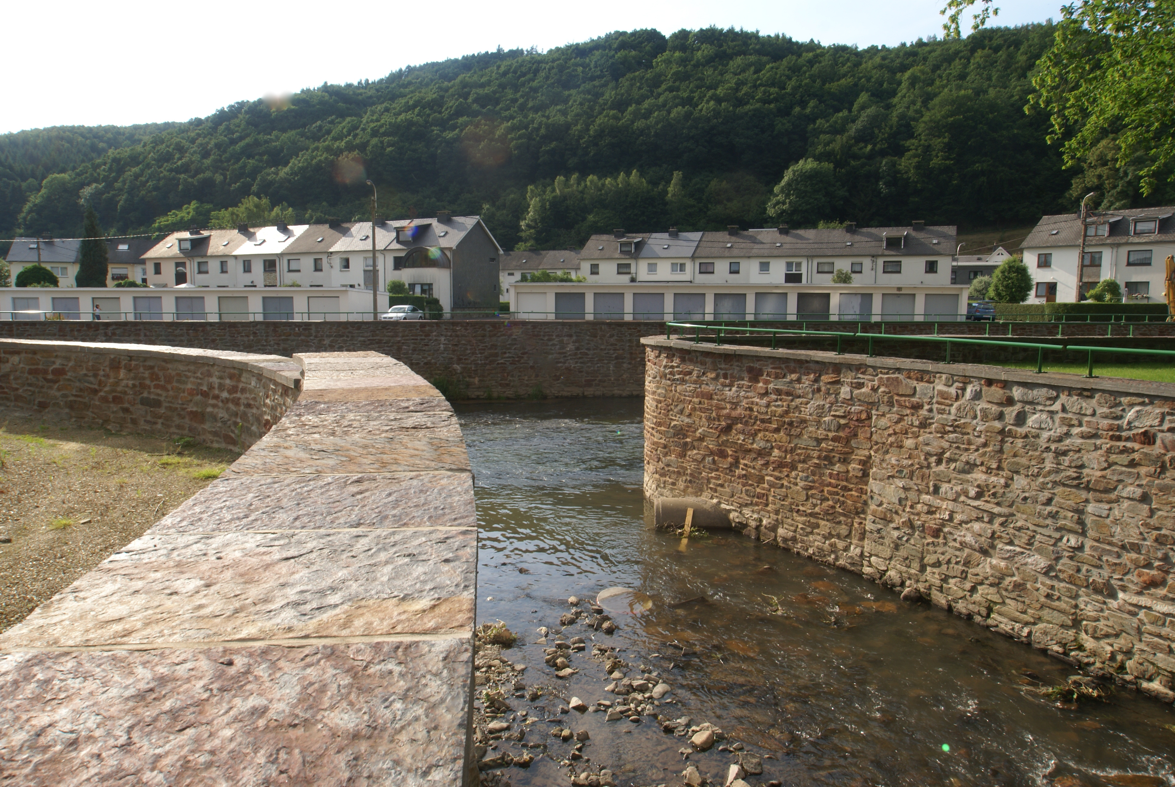 Malmedy (Belgium): The Warchenne and Warche River